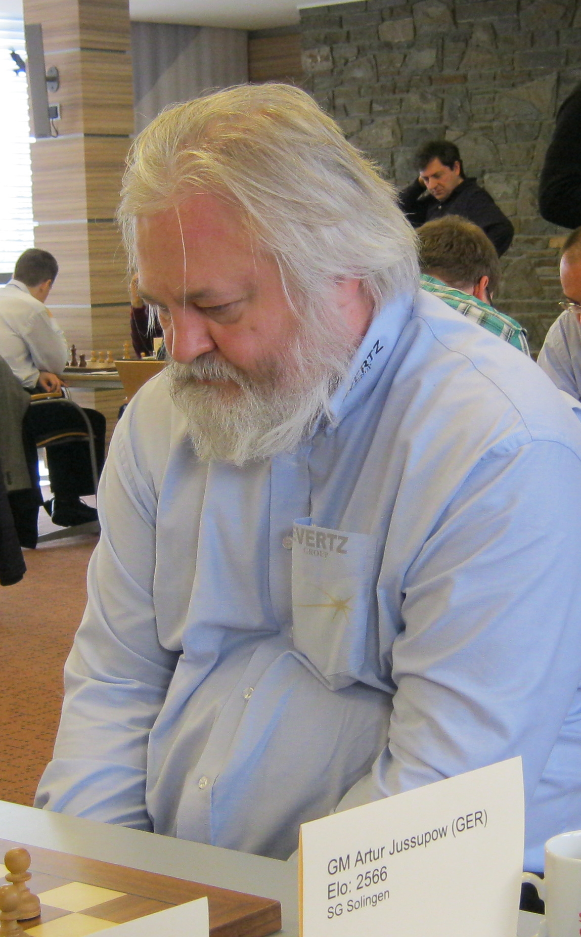 Artur Jussupow, chess grandmaster